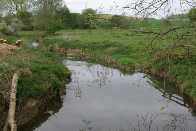 Looking upstream from Trafford Bridge. The Cherwell becomes a major Oxfordshire river (although it is still in Northamptonshire here), rising near Charwelton and joining the Thames at Oxford. The name is believed to be Old English meaning 'winding stream'.